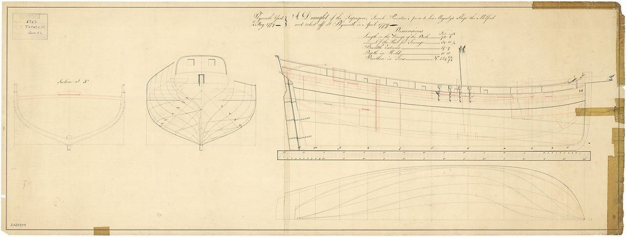 TAPAGEUR FL.1779 [FRENCH] lines & profile